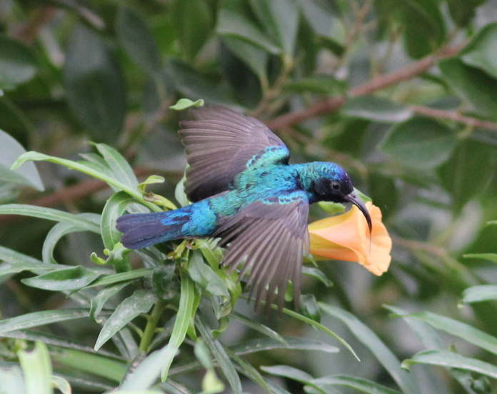 Palestine Sunbird (Cinnyris osea), picture taken at the Dead Sea in Jordan.